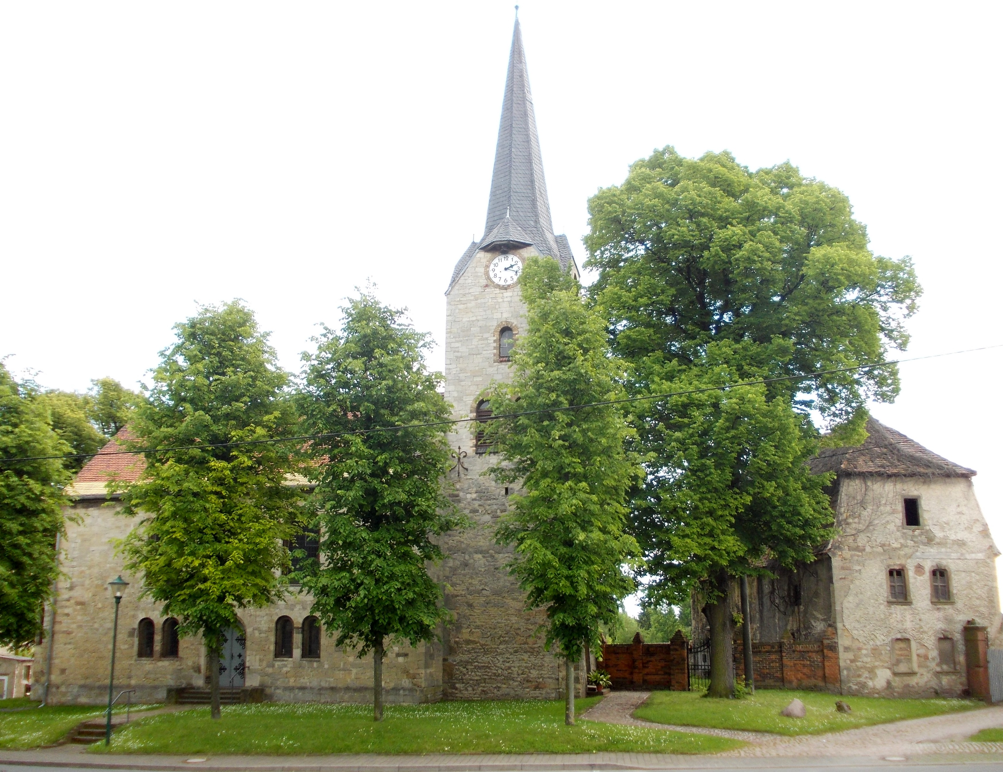 St. John's Church in Obhausen (district: Saalekreis, Saxony-Anhalt)